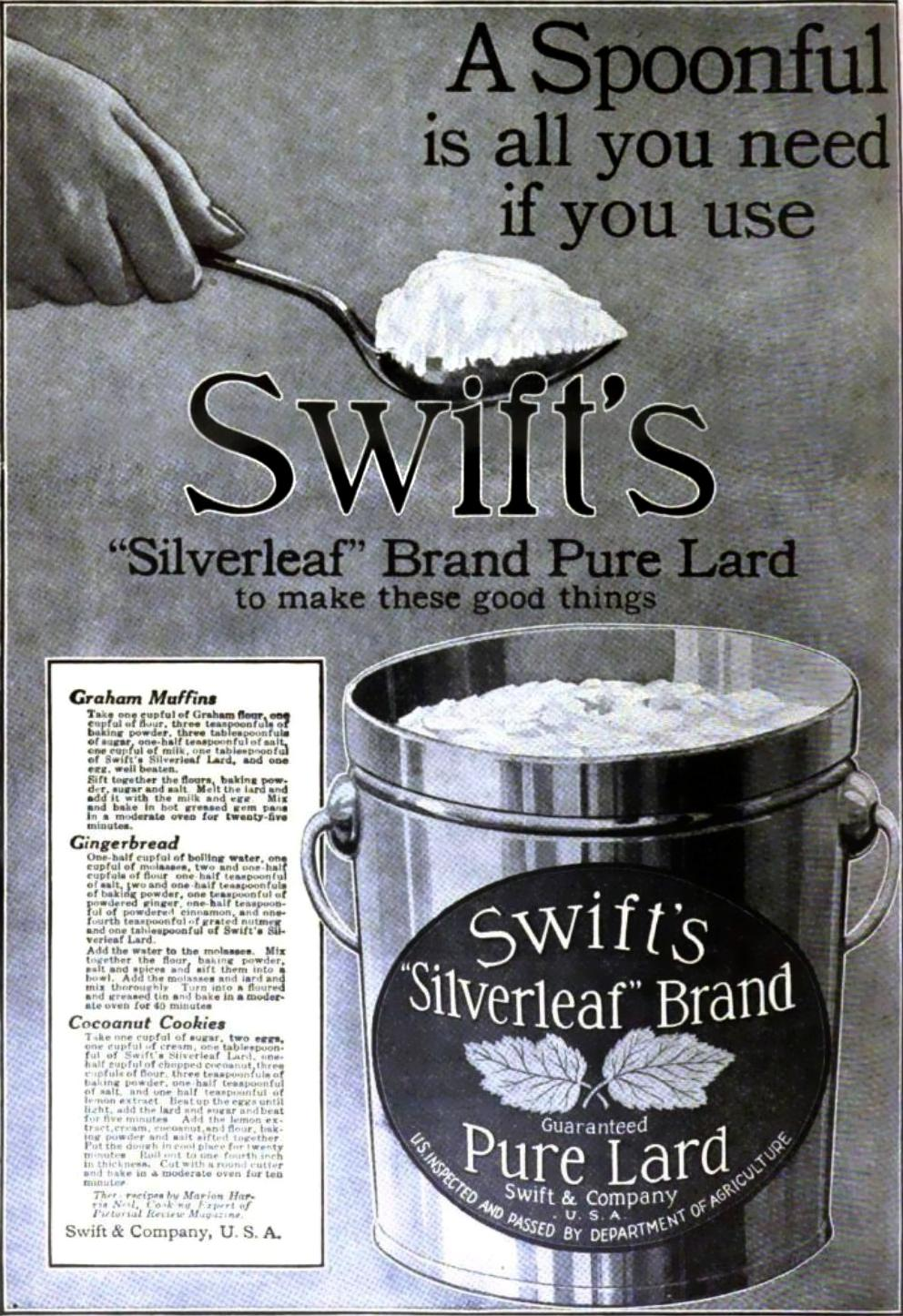 1916 advertisement for Swift's "Silverleaf" Brand Pure Lard from Swift & Company. Out of the magazine The Outlook (New York).